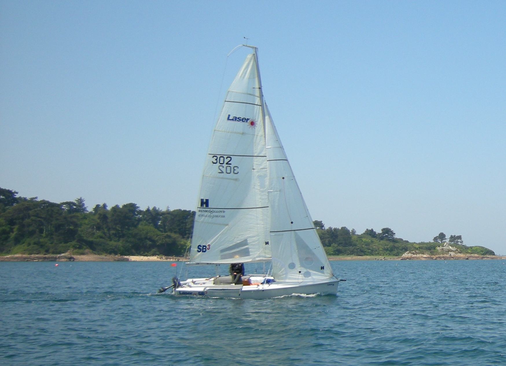 Laser SB3 on the Trieux river